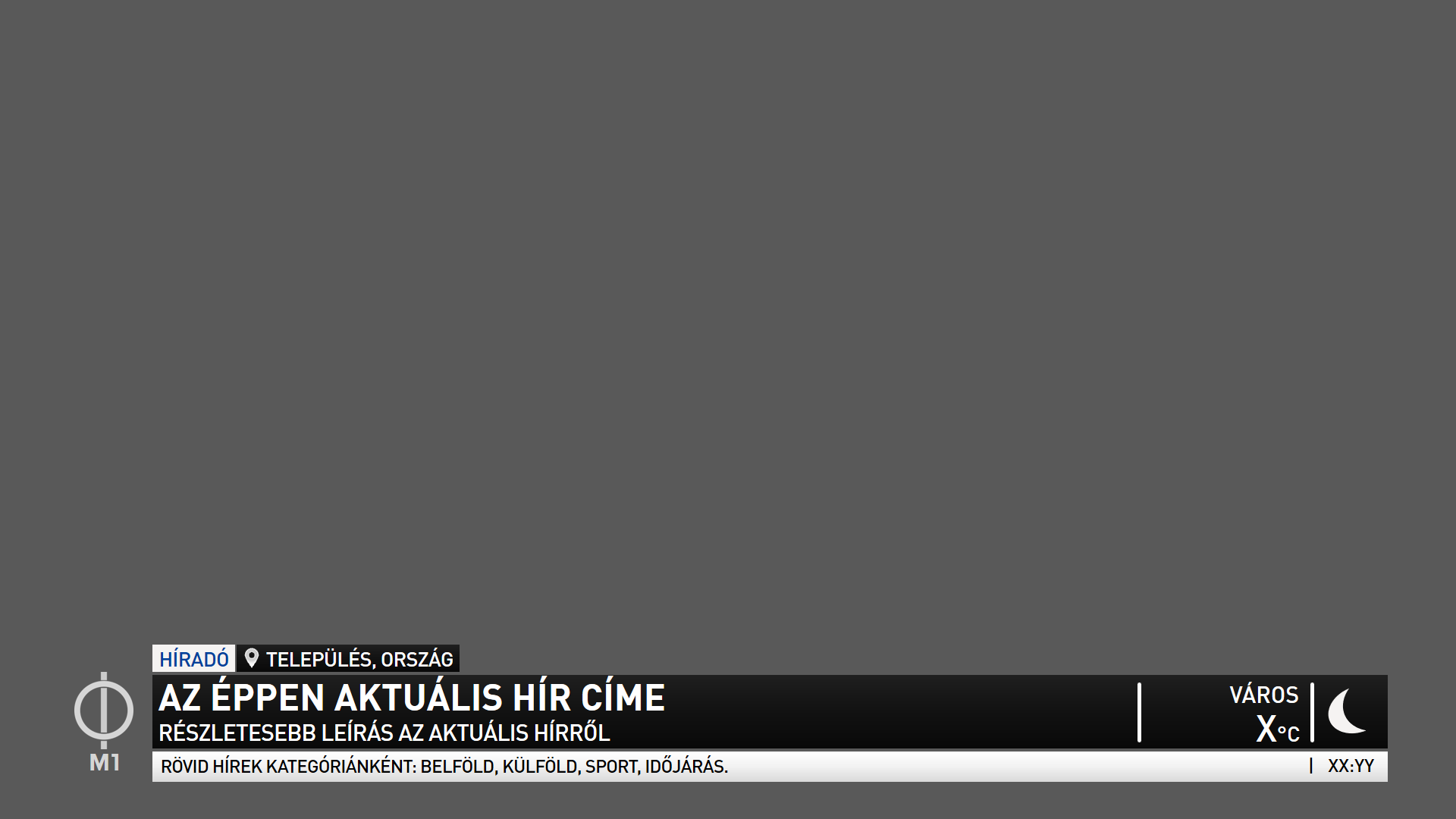 The new graphics of M1, Hungarian public news channel (2020–)